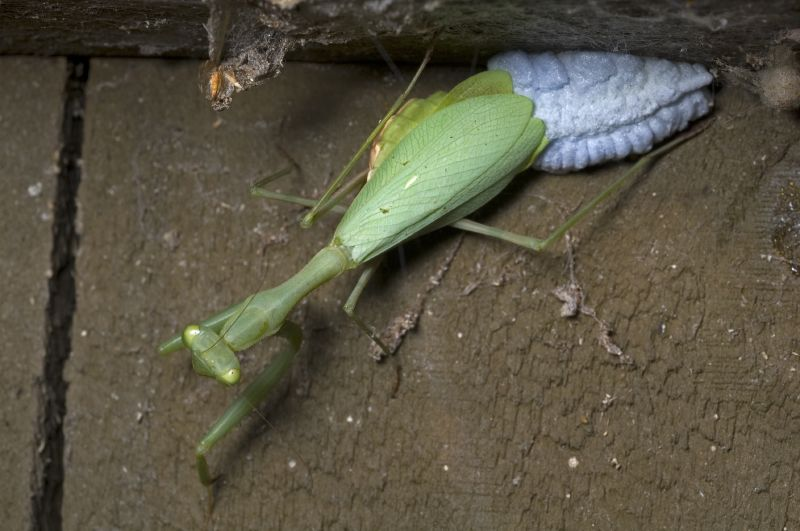 South Afican Praying Mantis, Miomantis caffra laying eggs.